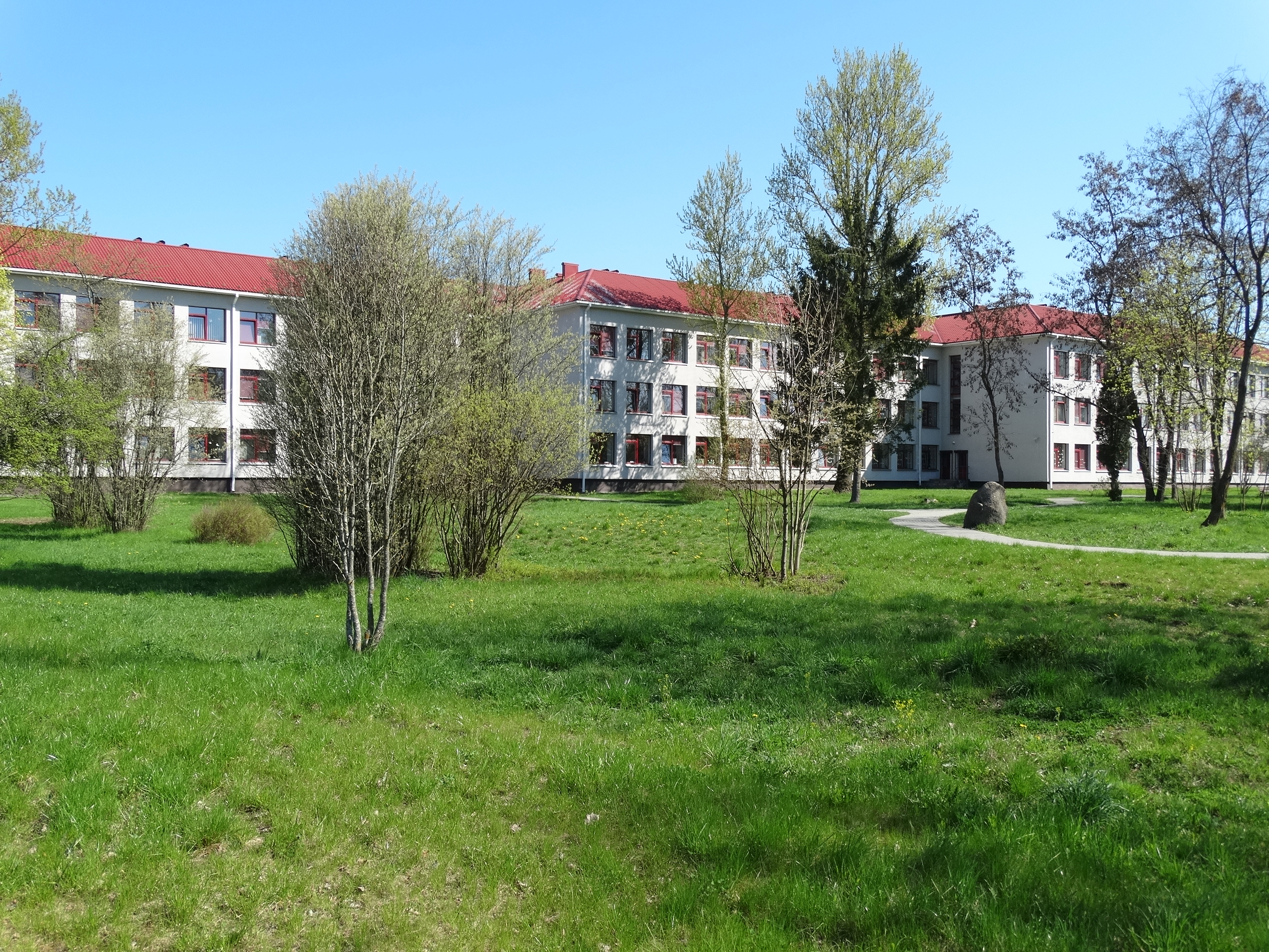 Jan Śniadecki Gymnasium, Šalčininkai, Lithuania